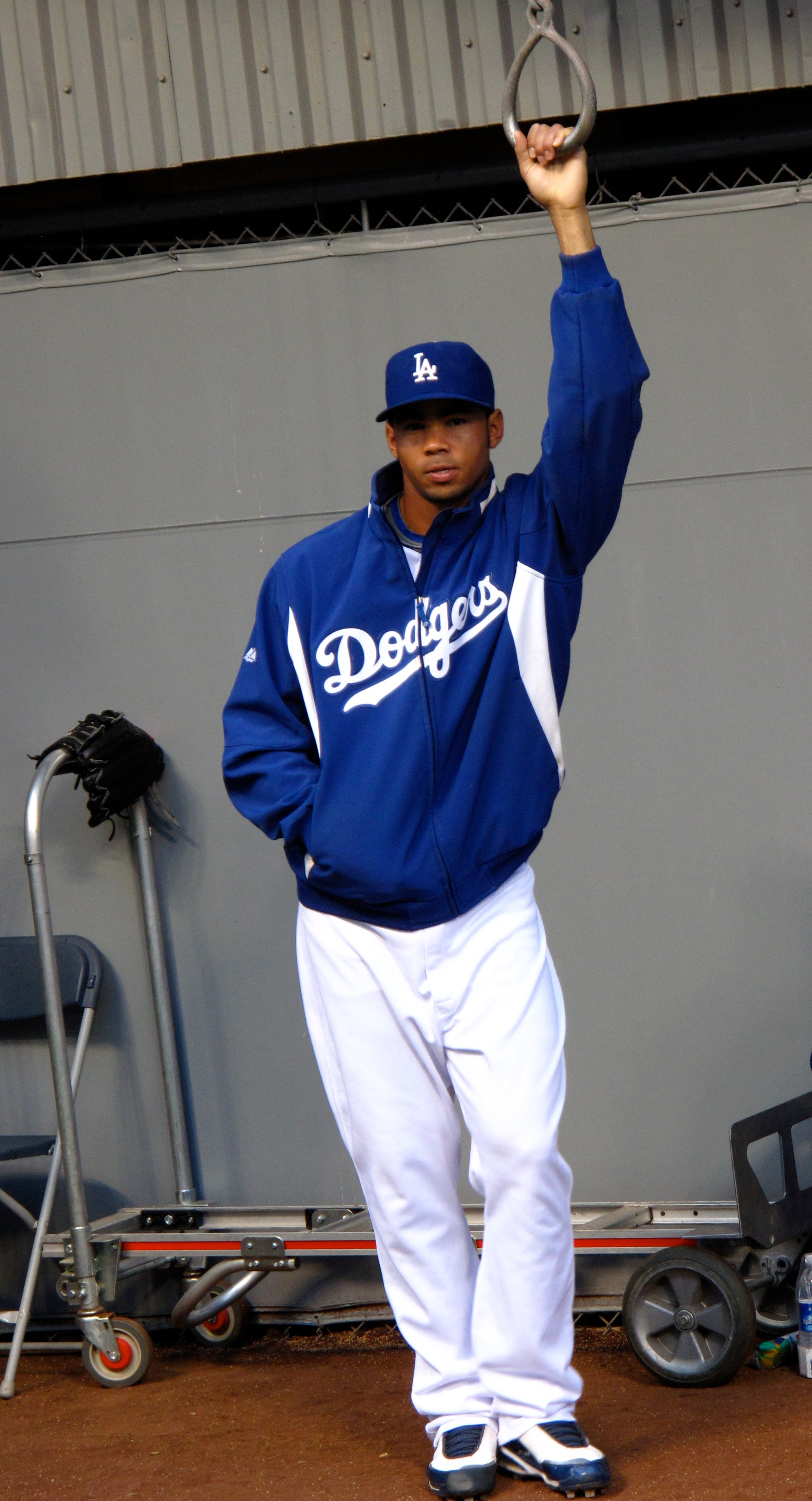 Ramón Troncoso in 2009.